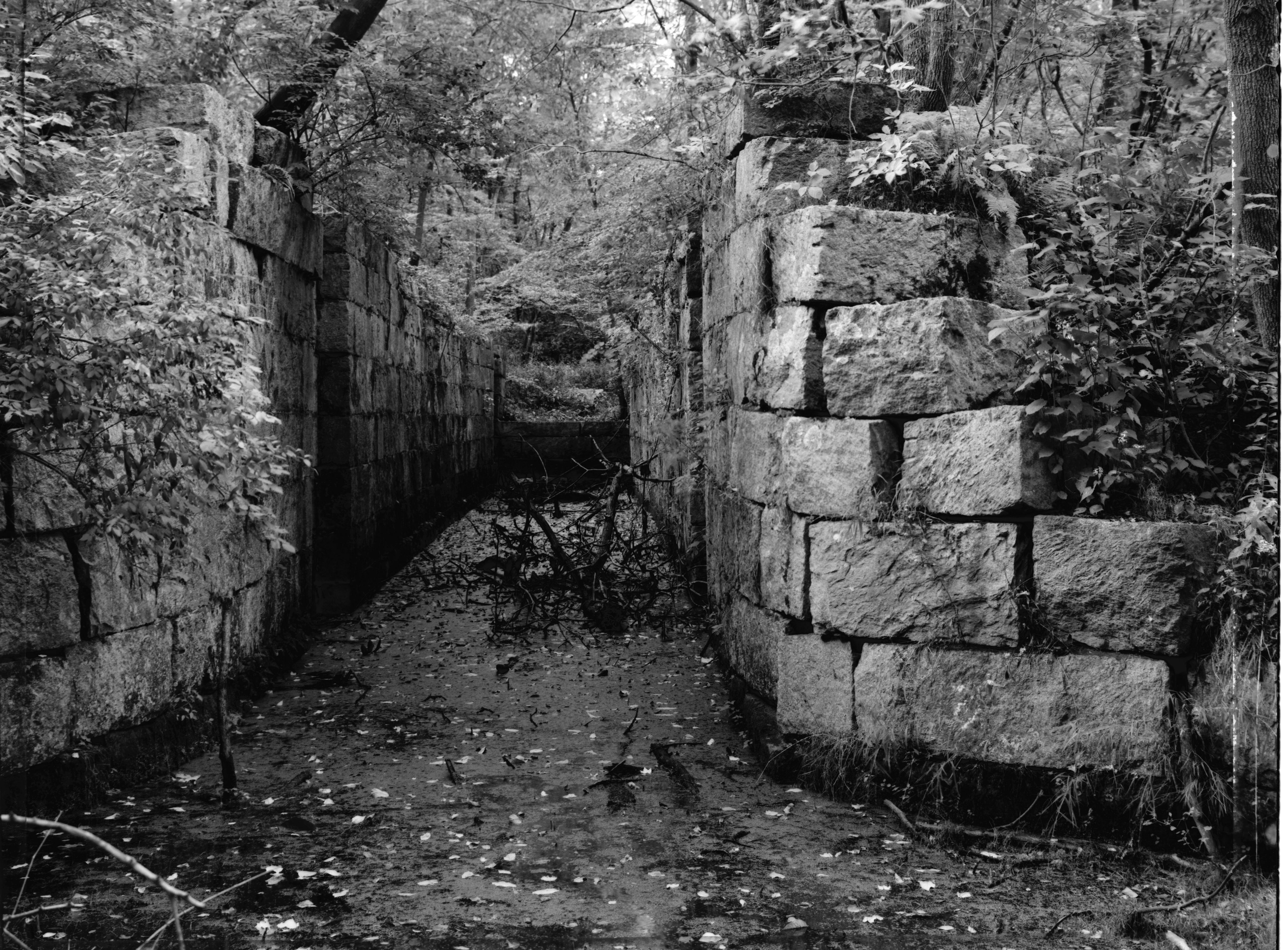 Remains of Lock #24, Blackstone Canal, Millville, Massachusetts